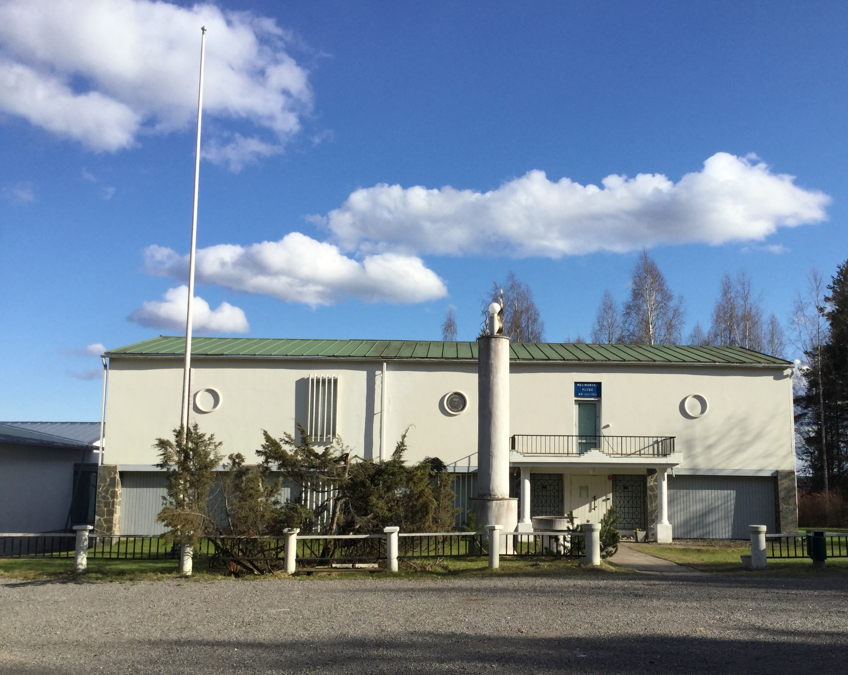 Nelimarkka Meseum in Alajärvi, Finland.